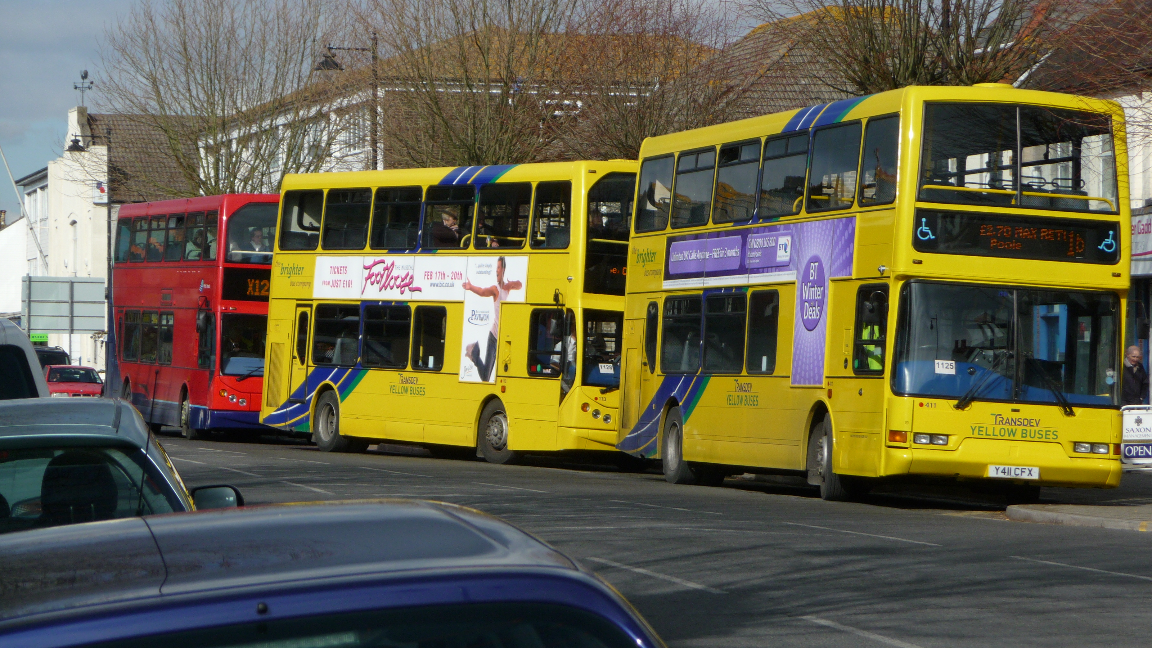 Various buses in Bargates, Christchurch. The red one on the left is Wilts & Dorset 413 (HF05 GGY), on route X12. The yellow buses are both owned by Transdev Yellow Buses, in the middle is 113 (HF05 HNA), and on the right is 411 (Y411 CFX). All the buses have Volvo B7TL chassis. 411, on the right, has East Lancs Vyking bodywork, the other two have newer East Lancs Myllennium Vyking bodywork.